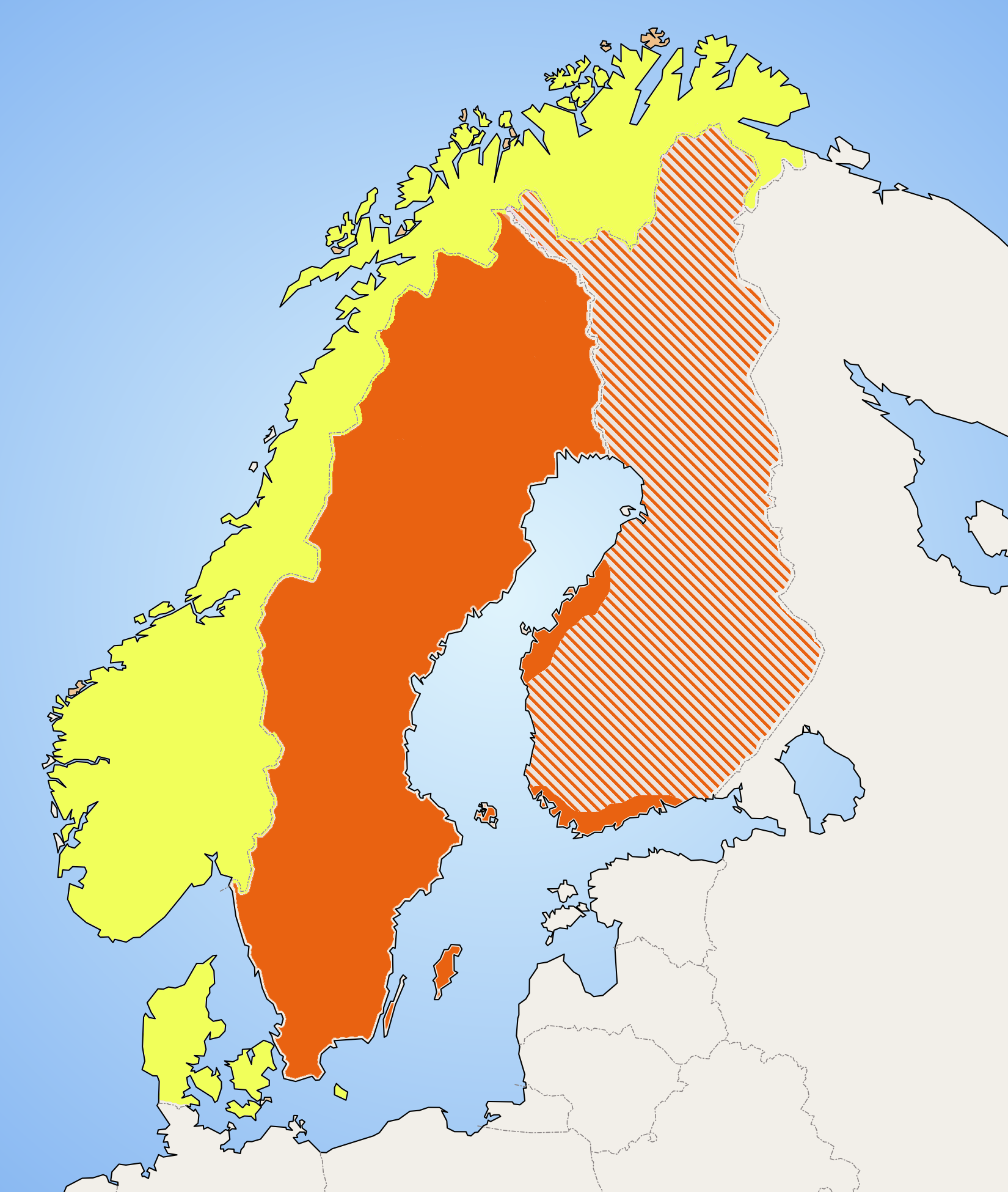 Major and minor usage of the Swedish language (orange) and areas of mutual intelligibility (yellow) Major and minor usage of the Swedish language areas of mutual intelligibility